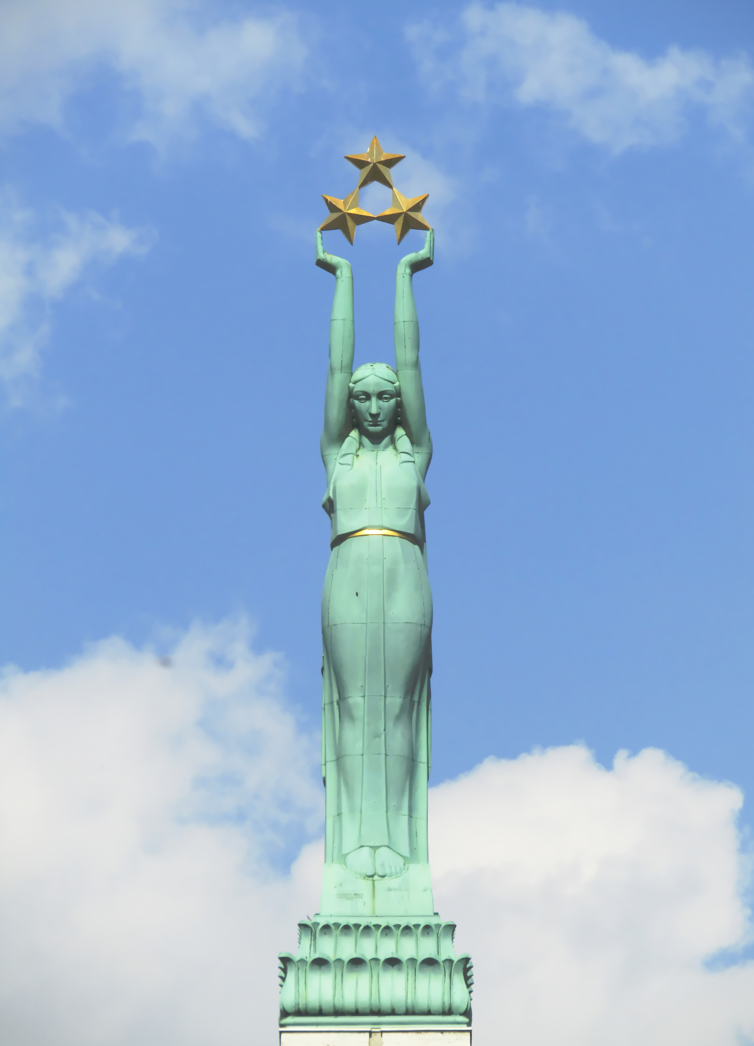 A close-up of the statue of Liberty atop Riga's Freedom Monument.